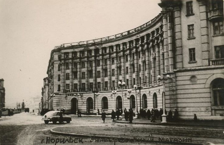 Main store in Norilsk, built by prisoners of the Norillag